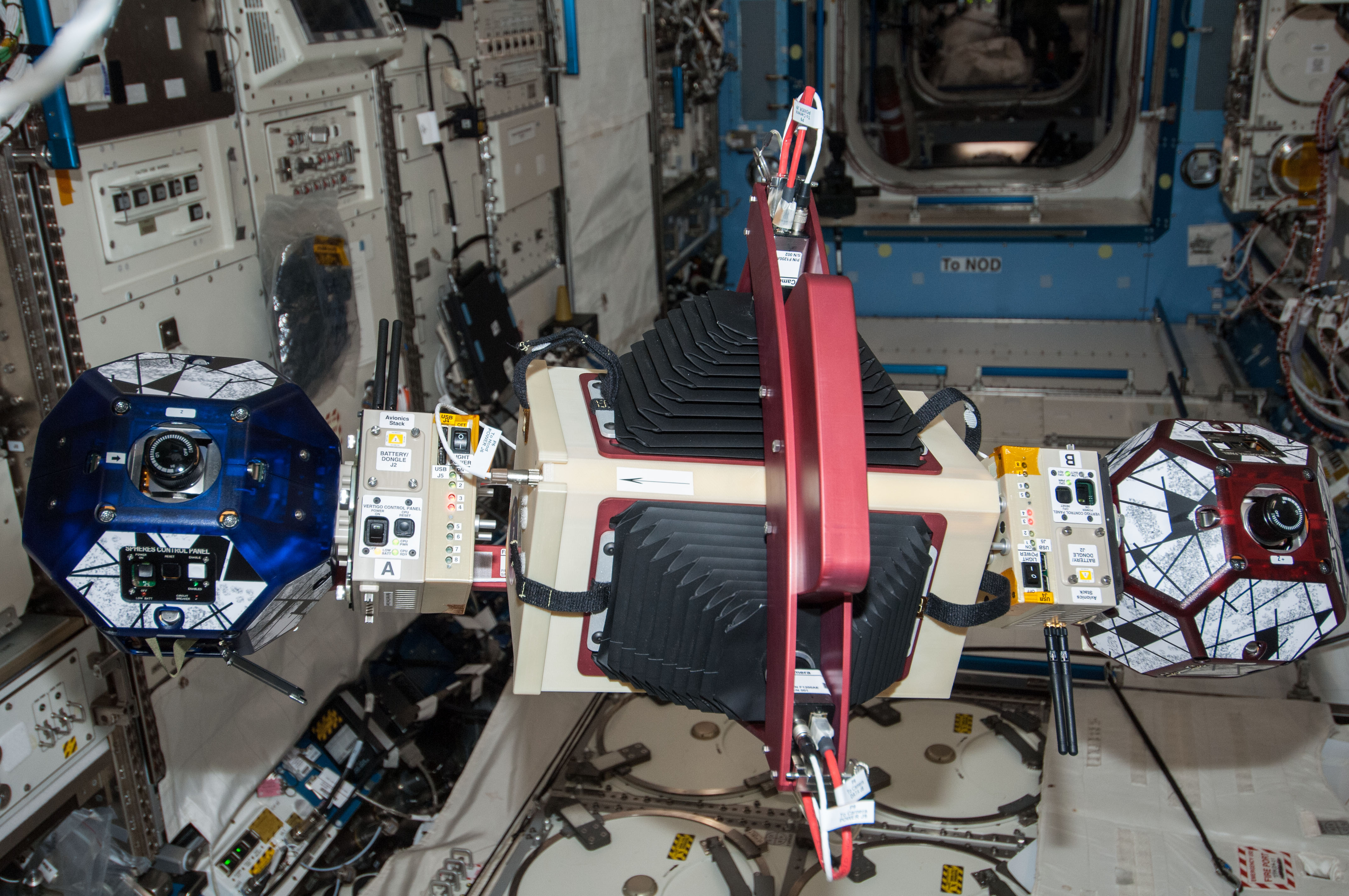 SLOSH in full assembly- SPHERES SLOSH hardware fully assembled getting ready to conduct fluid dynamics related experiments.